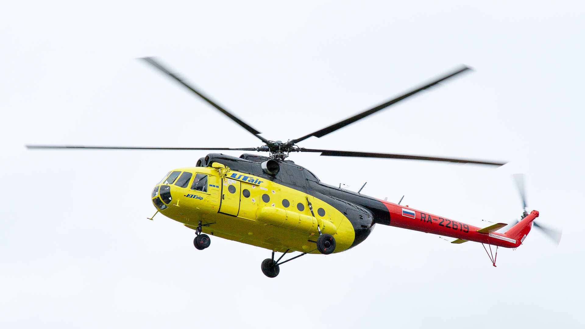 Mil Mi-8T (UTair Aviation) RA-22619